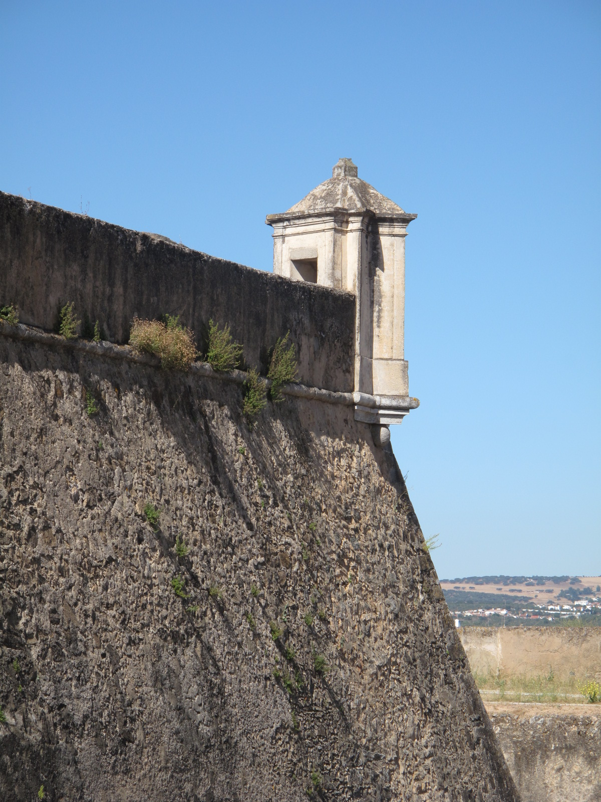 This file was uploaded for Wiki Loves Monuments in Portugal with the unique identifier 97003244.